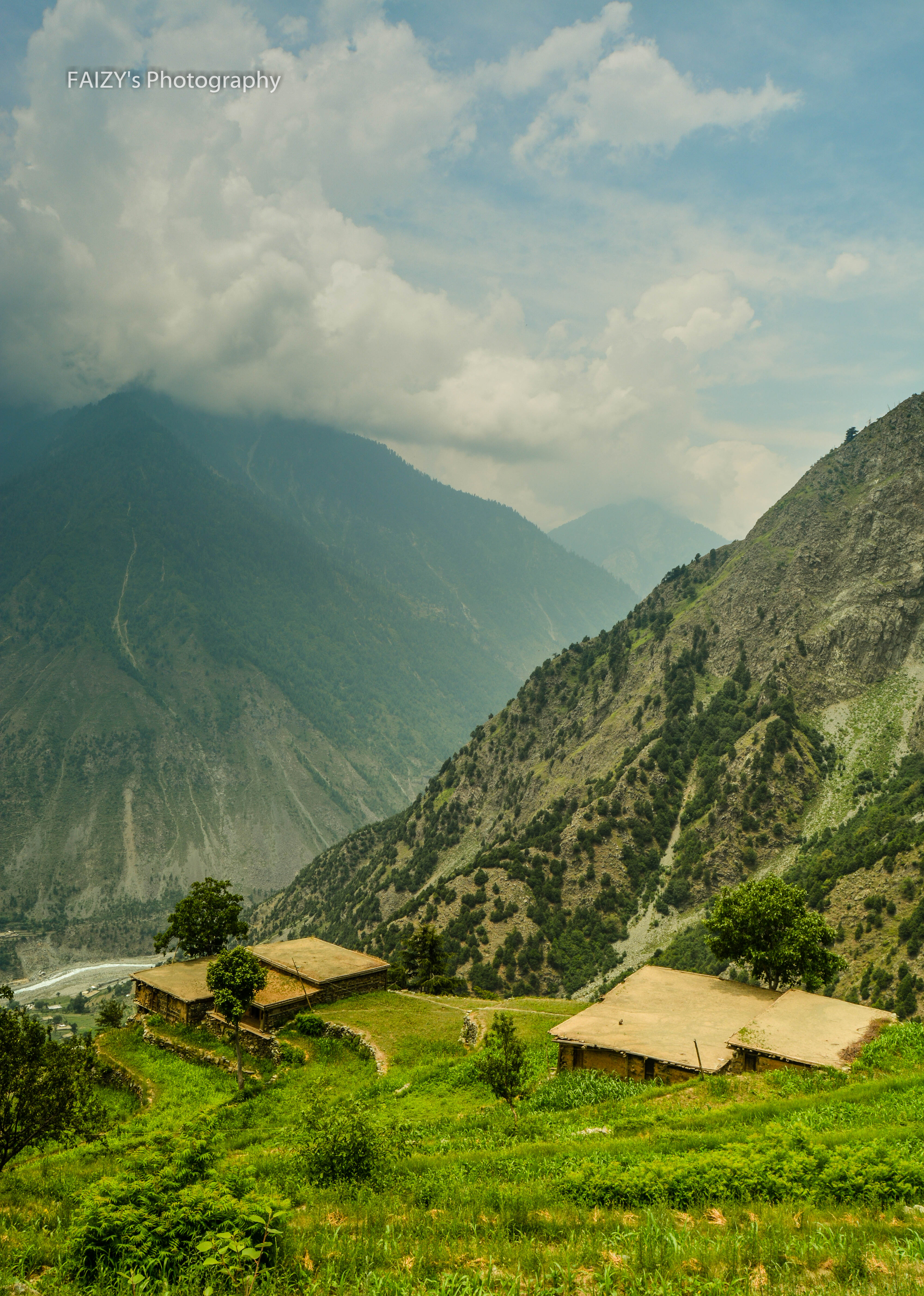 Bhoin Shaikhdara